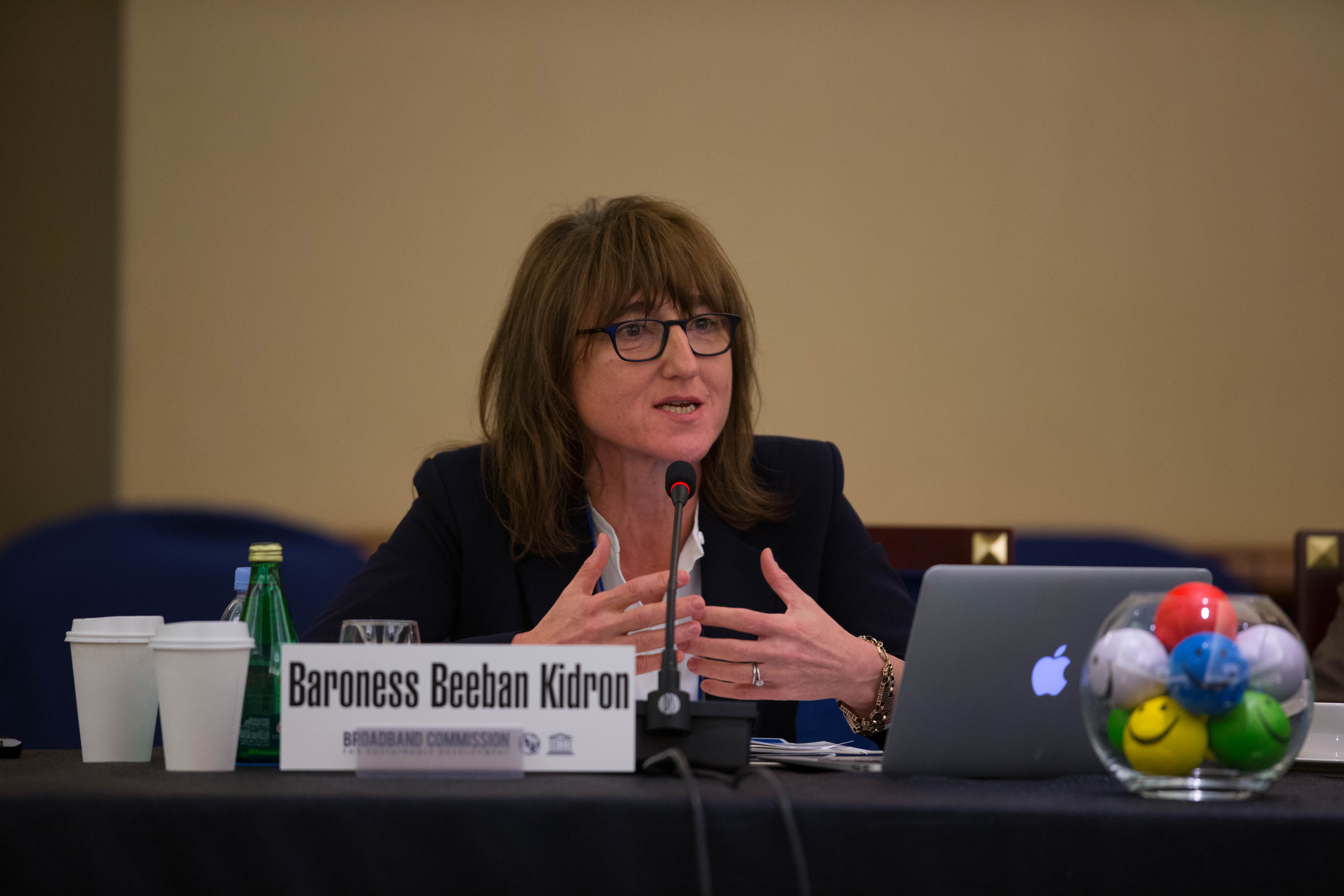 Baroness at the 13th Broadband Commission for Digital Development Meeting, Dubai, 13 March 2016. © ITU/ K.Jeffs